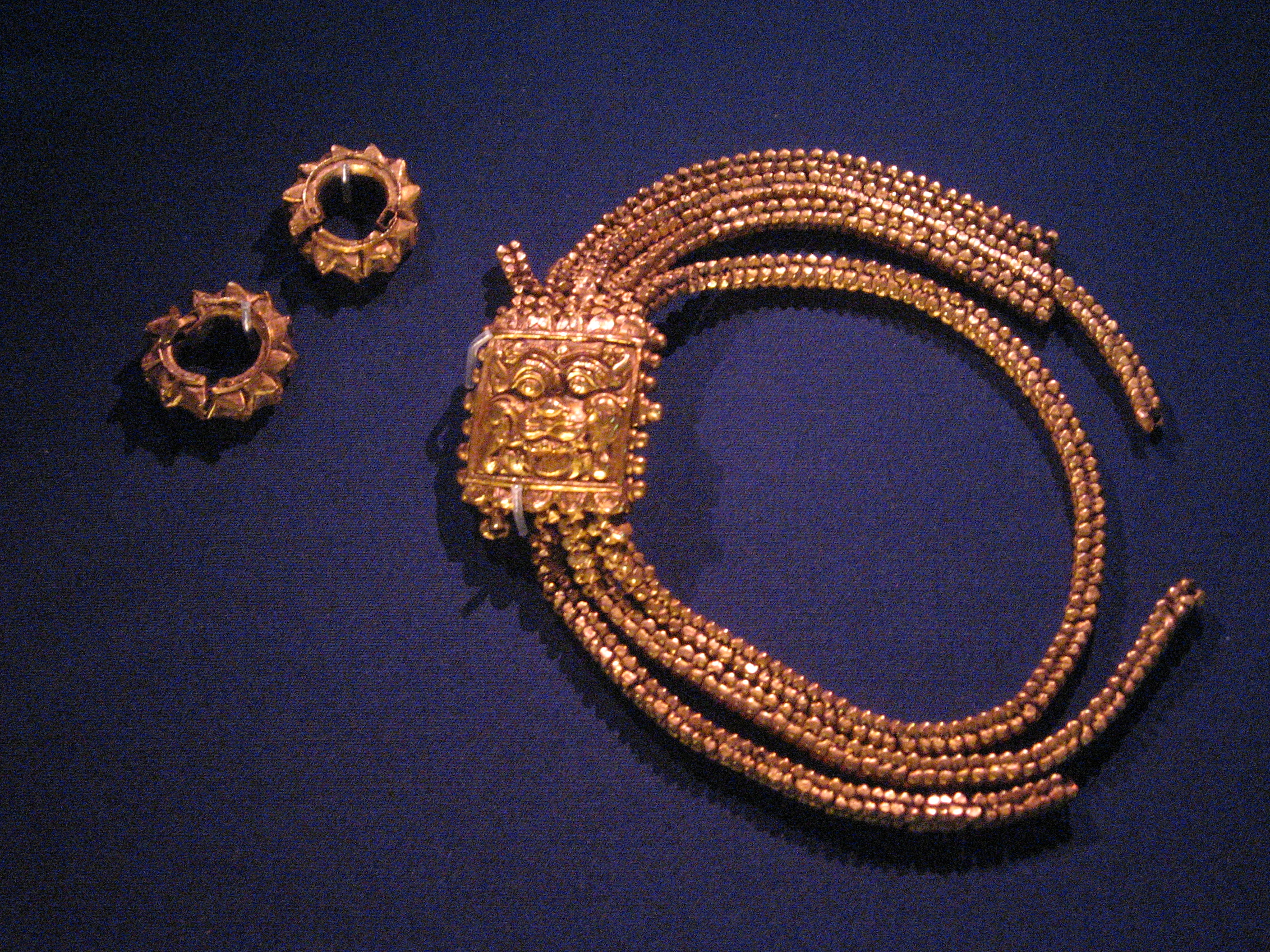 14th-century gold armlets and rings in East Javanese style, found at Fort Canning Hill, Singapore, in 1928. Displayed in the Singapore History Gallery of the National Museum of Singapore, they were collectively designated by the Museum as one of 11 "national treasures" in January 2006 and by the National Heritage Board as one of the top 12 artefacts held in the collections of its museums. See (1) Lim Wei Chean (31 January 2006). "Singapore's treasures". The Straits Times. (2) Our top twelve artefacts. National Heritage Board. Archived from the original on 2008-08-22. Retrieved on 2007-07-17.